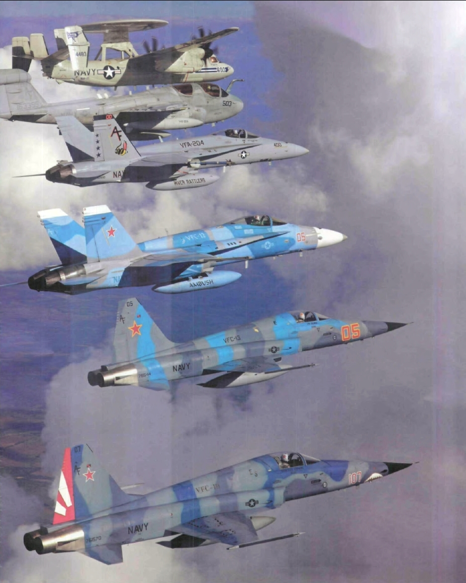 U.S. Navy Reserve aircraft the Tactical Support Wing (TSW) in flight over Texas (front to back): a Northop F-5E Tiger II from Composite Fighter Squadron VFC-111 Sundowners; an F-5E from VFC-13 Saints; a McDonnell Douglas F/A-18C from VFC-12 Fighting Omars; an F/A-18A Hornet from Strike Fighter Squadron VFA-204 River Rattlers; a Grumman EA-6B Prowler from Electronic Attack Squadron VAQ-209 Star Warriors; and a Grumman E-2C Hawkeye from Airborne Electonic Warning Squadron VAW-77 Night Wolves.